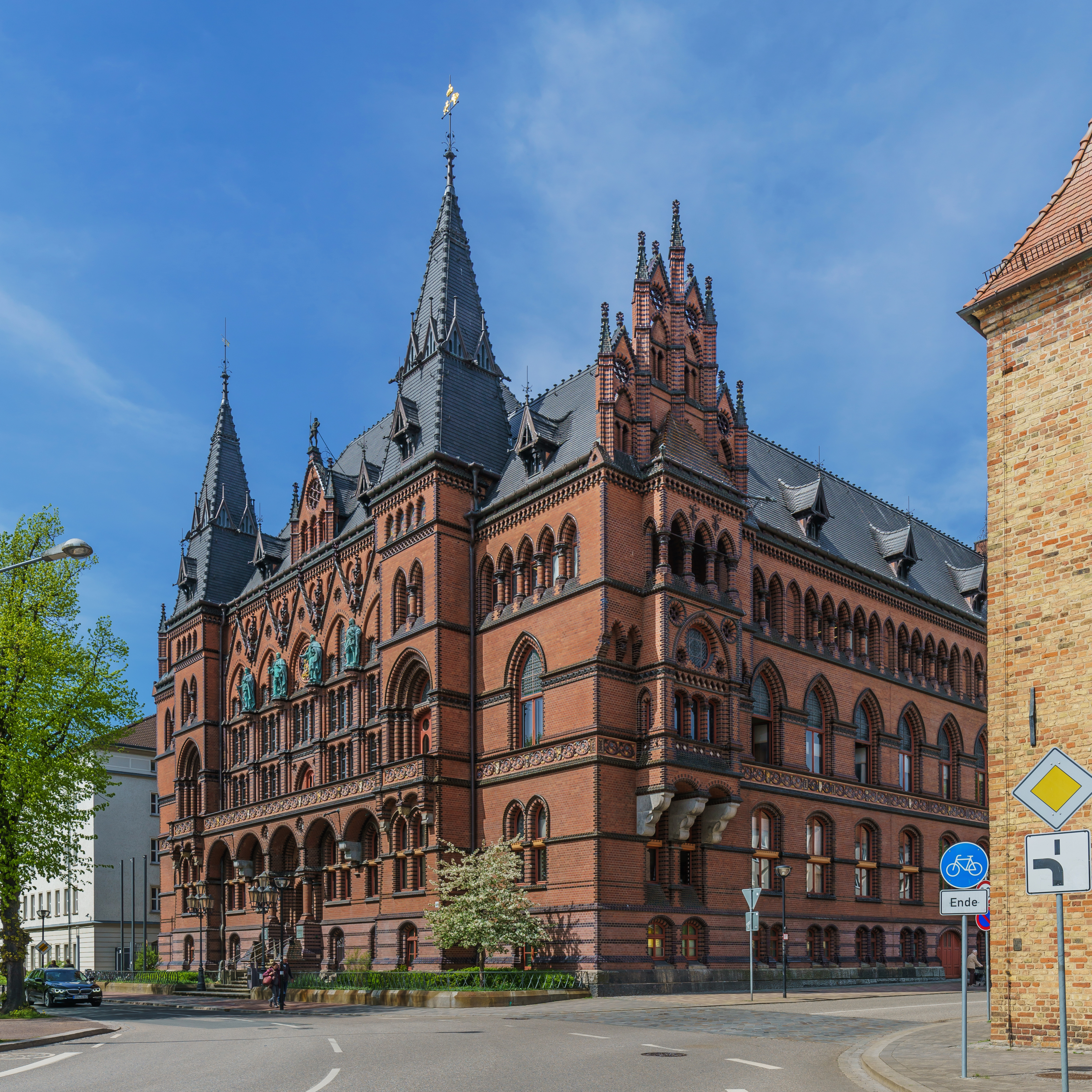 Courthouse in Rostock, Germany